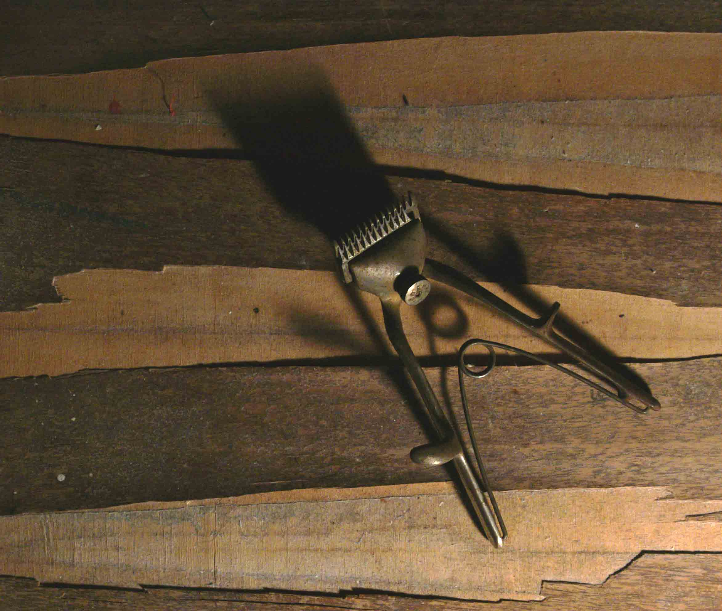 Manual Beard Clipper with Spring. Hurts.